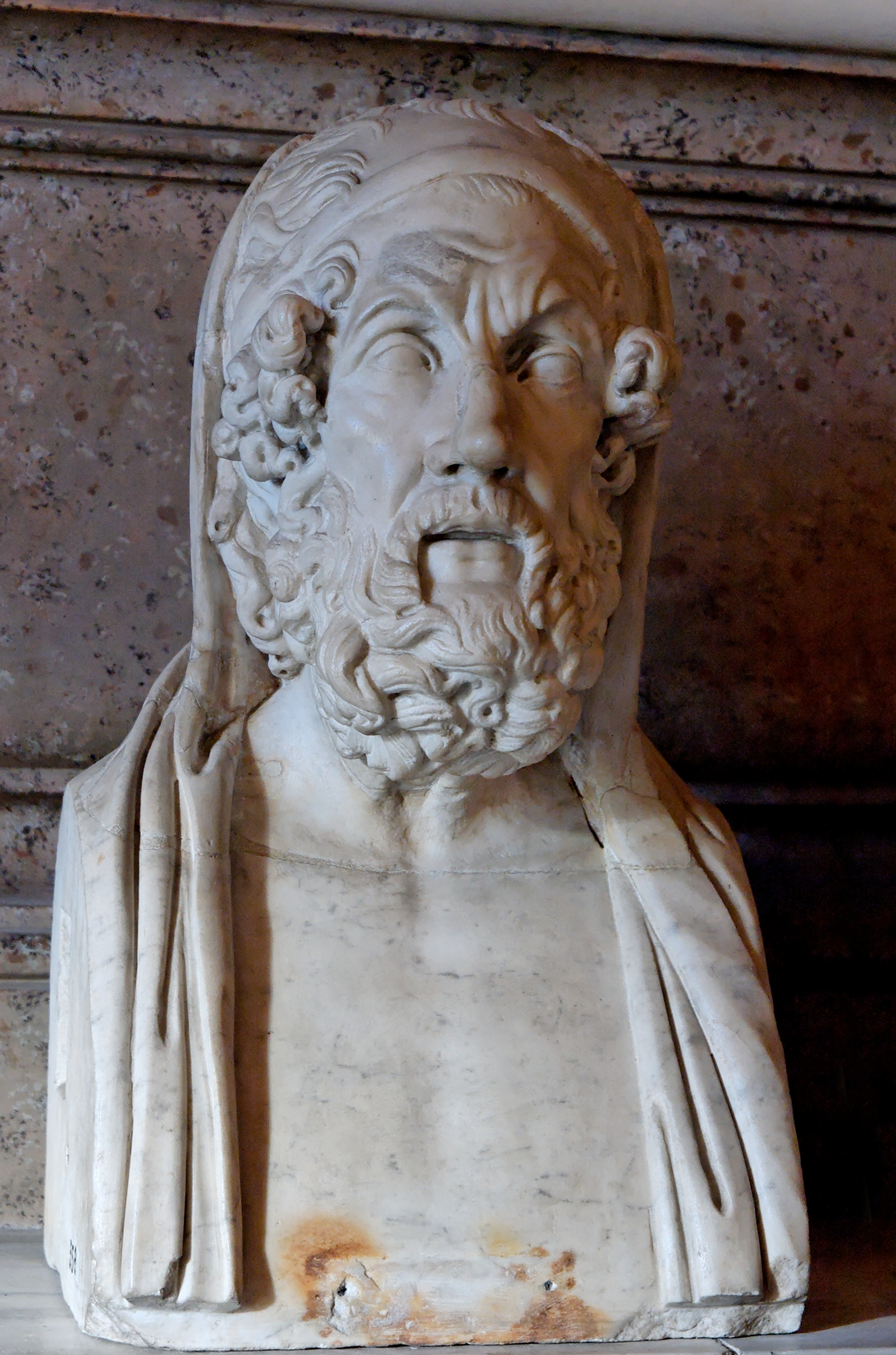 Bust of Homer. Marble, Roman copy after an Hellenistic original of the 2nd century BC.